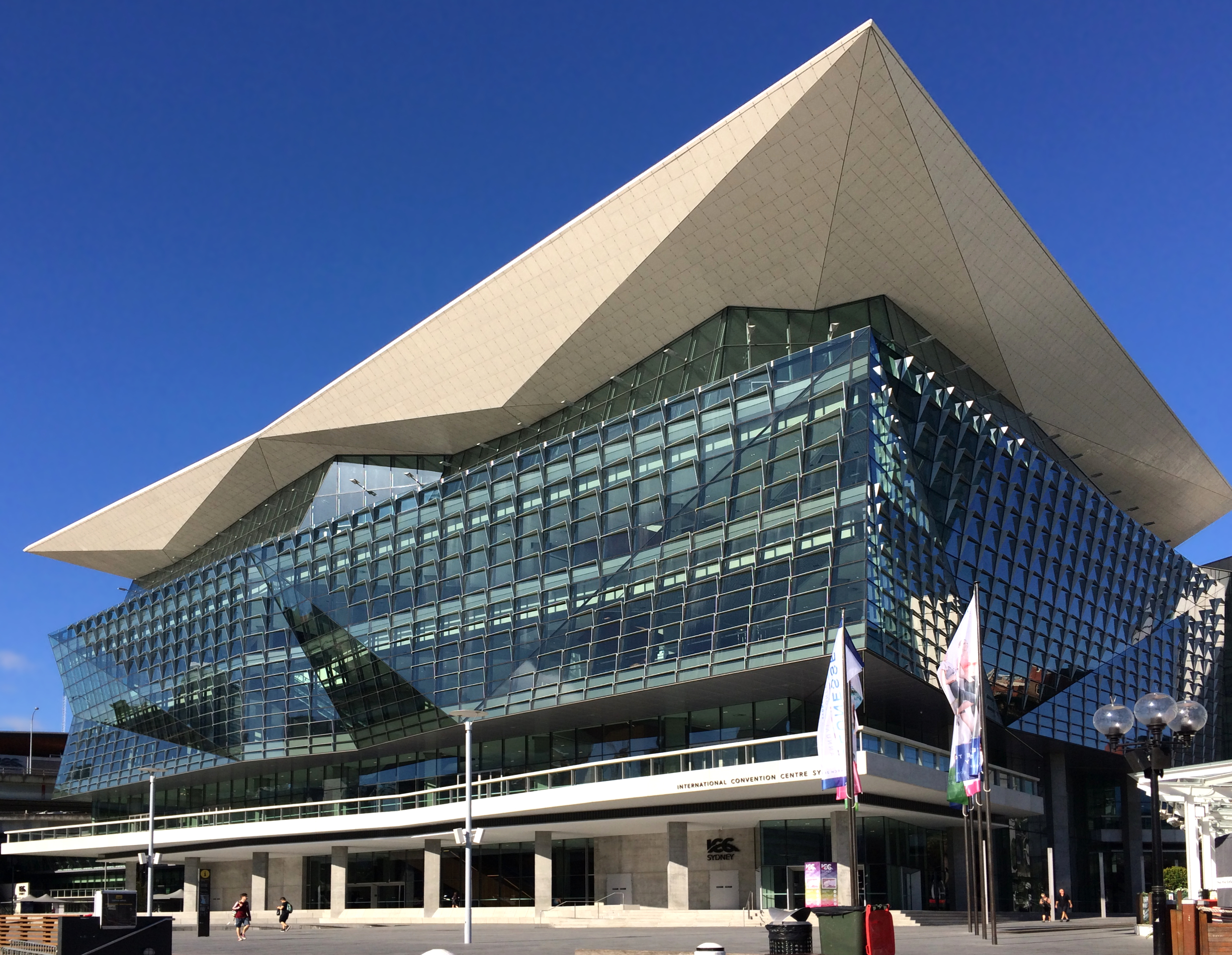 Profile of the convention block of the International Convention Centre Sydney, as viewed from the dock nearby in March 2017. The convention block is one of three segments of the complex - it is the northernmost segment, and houses the Darling Harbour Theater, the Pyrmont Theater, the Parkside Ballroom, The Gallery, and the Grand Ballroom, along with many different rooms purposed for conventions of any scale and size. The building's design, an abstract form composed of many tesselating triangular shapes, was made to fit in well with surrounding buildings in Darling Harbour, which also adopt similar differentiating designs. The center was opened in December 2016, replacing the old Sydney Convention and Exhibition Centre, which stood on the same site for 25 years.